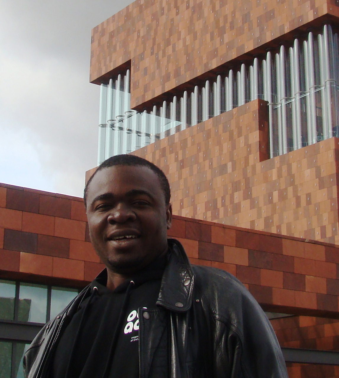 Eric Adjetey Anang stanfing in font of the MAS, Antwerp, Belgium - March 2012